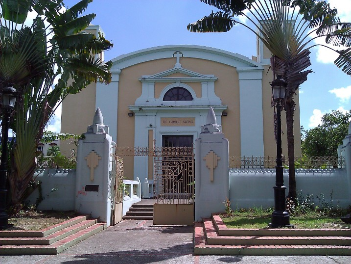 Santa Cruz Church in Plaza de Hostos, Bayamon, Puerto Rico